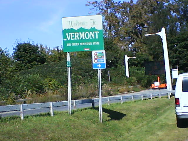 This is a Vermont welcome sign on VT Route 17 in Addison after crossing the New York border on the Champlain Bridge. Also note the sign pointing to Lake Champlain Quadracentenial festival.